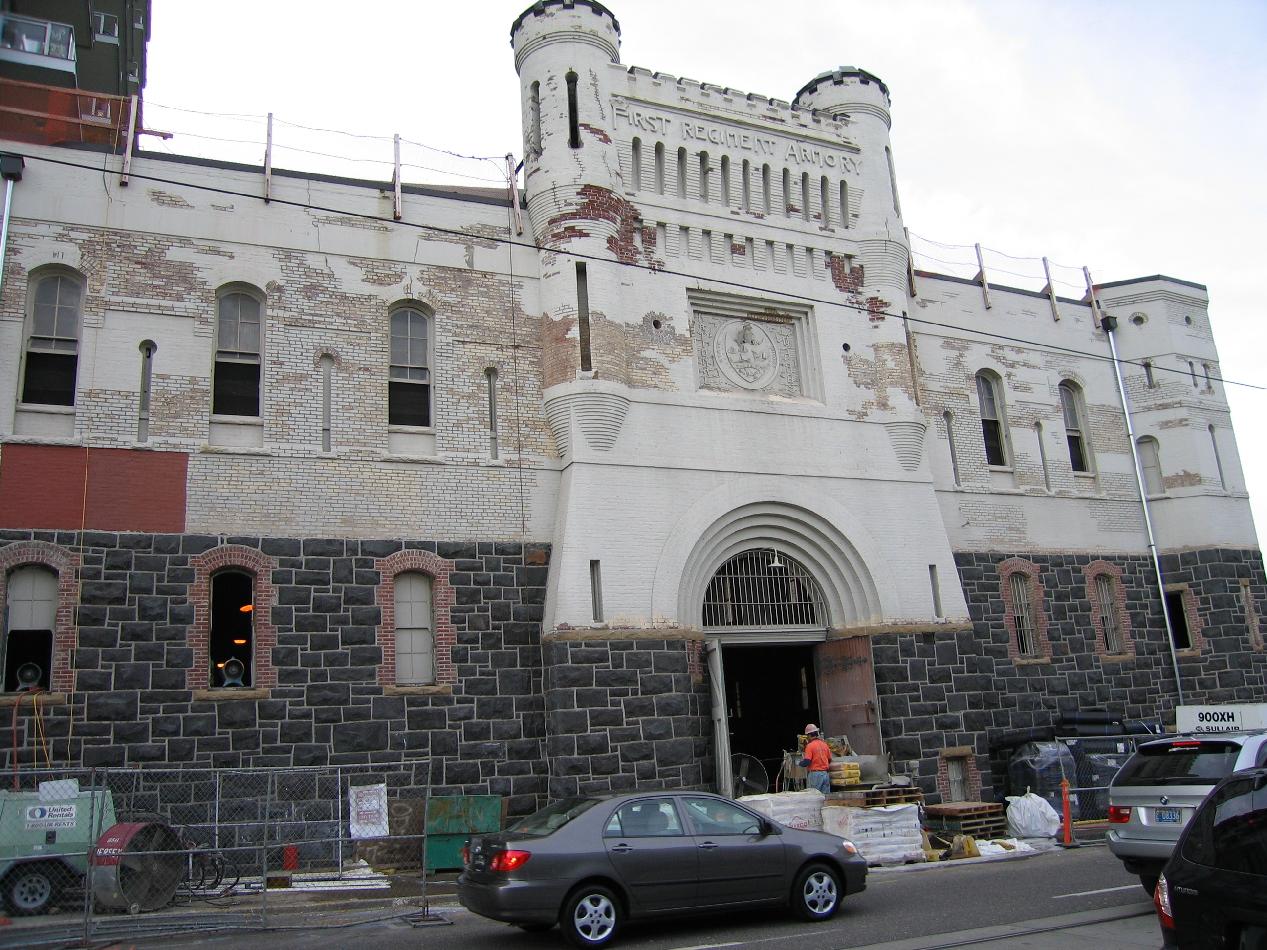 First Regiment Armory: 11th Ave NW. Preserving the facade, gutting the interior.